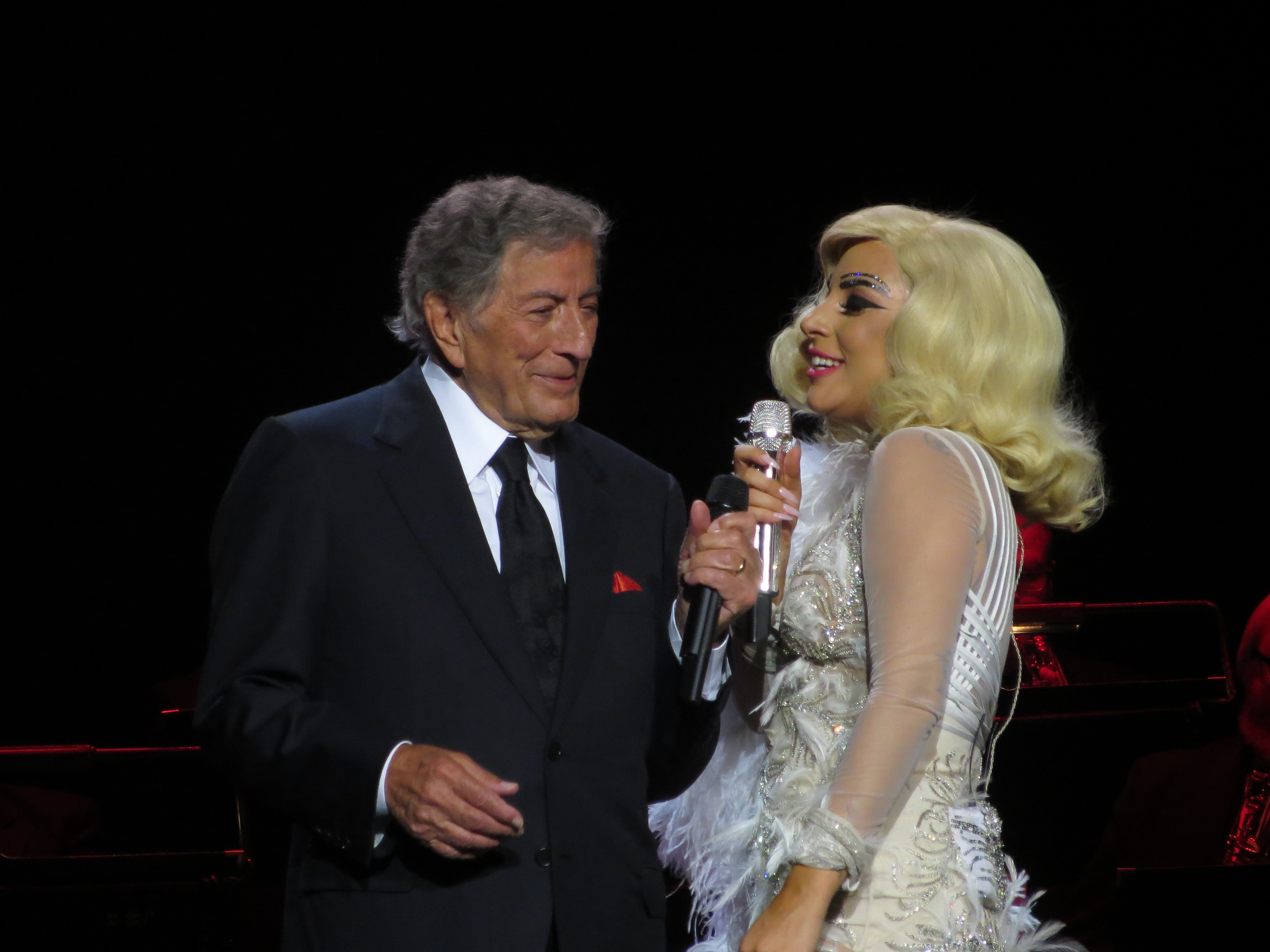 Tony Bennett & Lady GaGa, Cheek to Cheek Tour, London Royal Albert Hall, 8 June 2015.